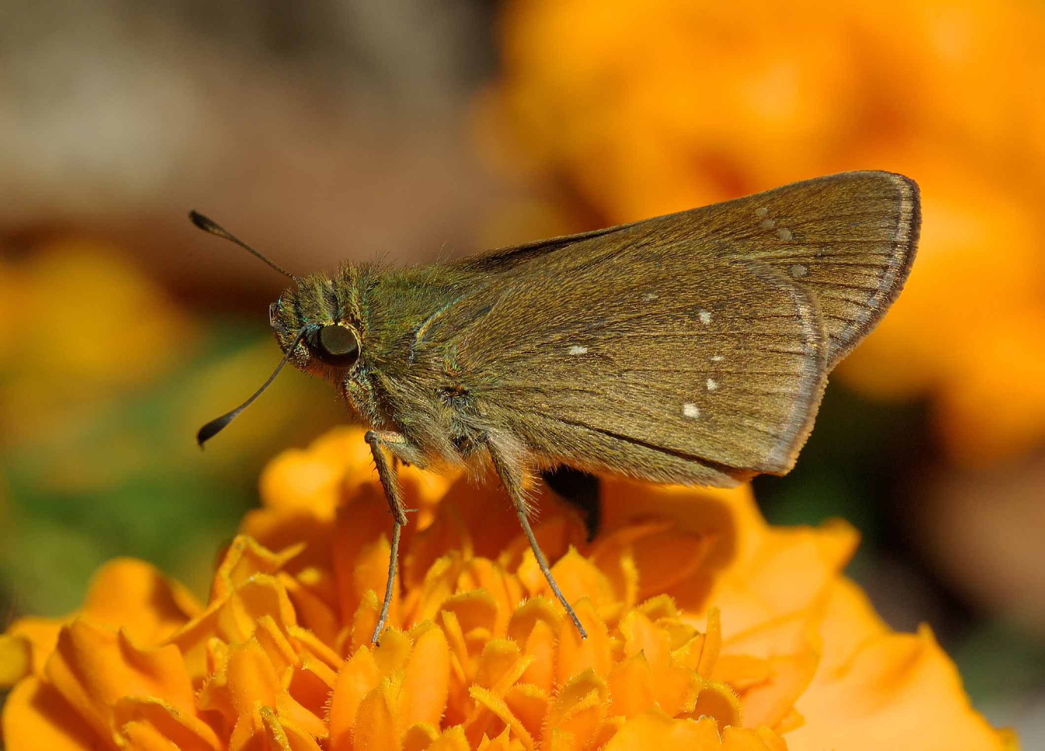 Dark Small-branded Swift.